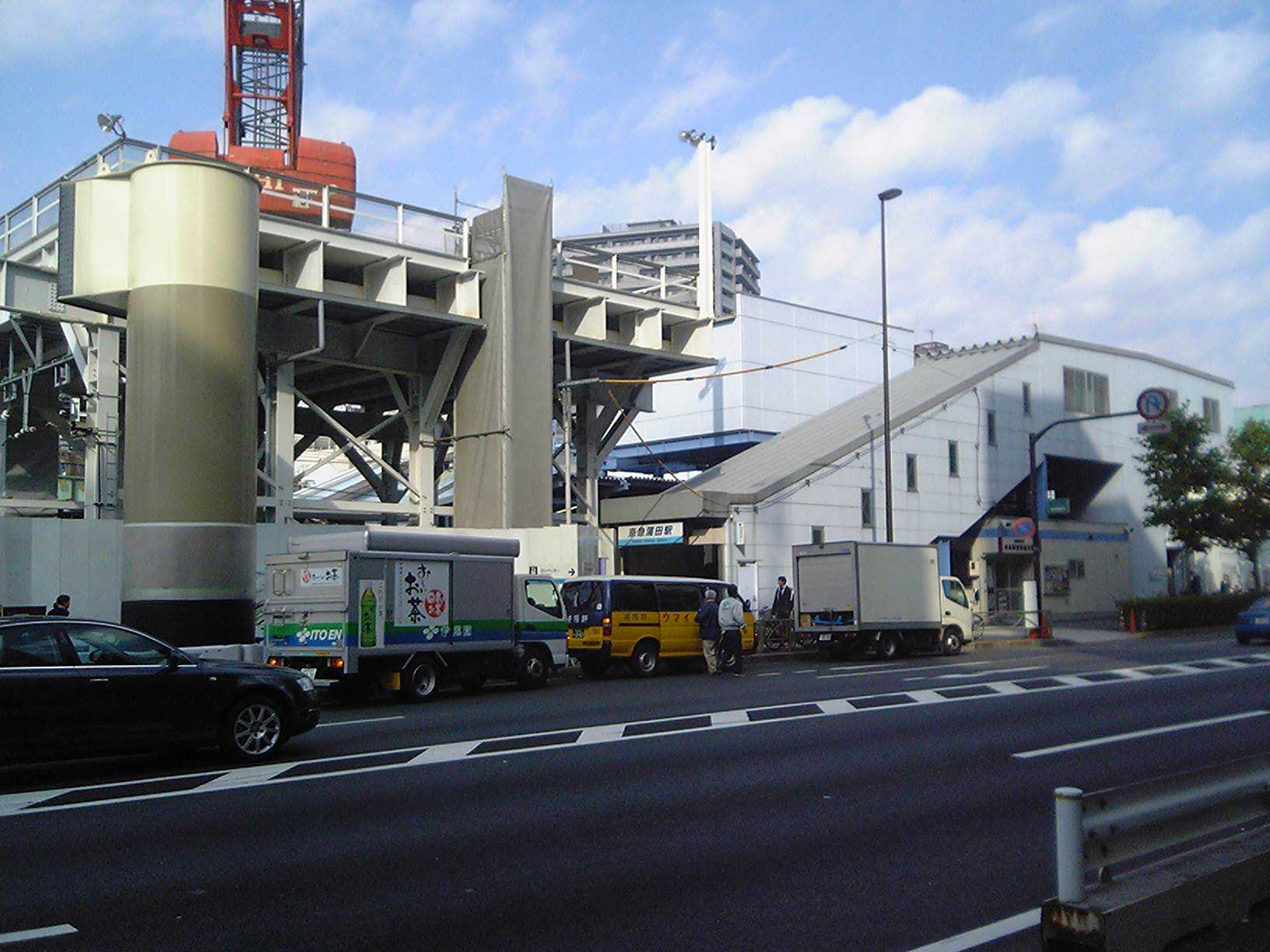 Keikyu Kamata station